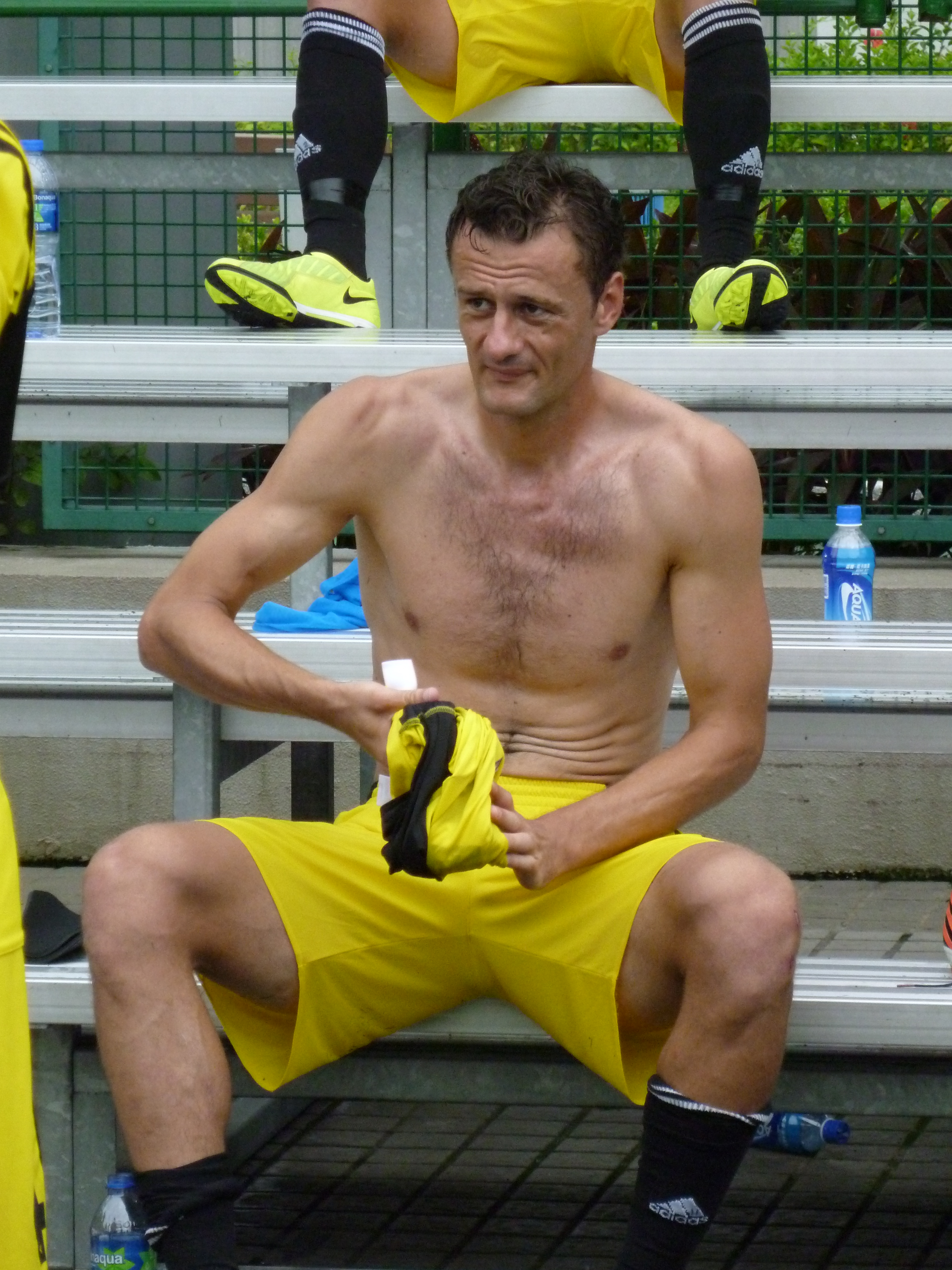 Admir Raščić (23 Aug 2013, Friendly Match, Pegasus vs Yuen Long, Tsing Yi Northeast Park)中文（香港）: 拉斯錫 (23 Aug 2013, 友賽, 飛馬 vs 元朗, 青衣東北公園)